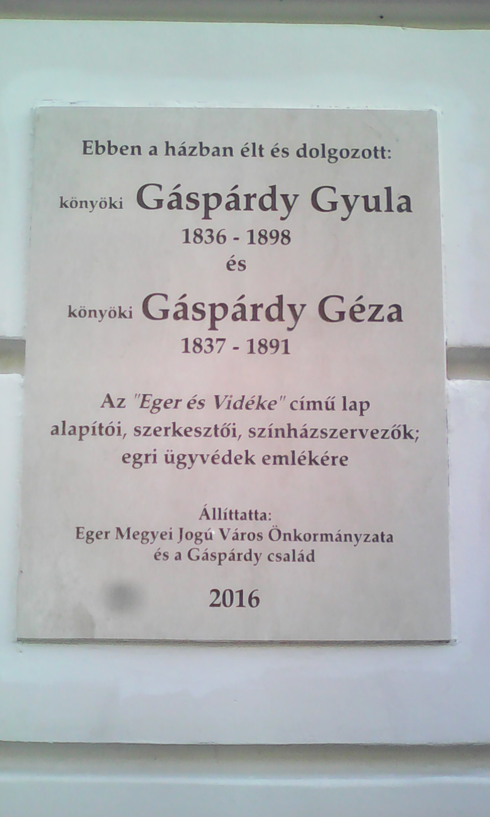 Here-lived and here-worked plaque of Gáspárdy brothers, Gyula and Géza, 12 Széchenyi Street, Eger